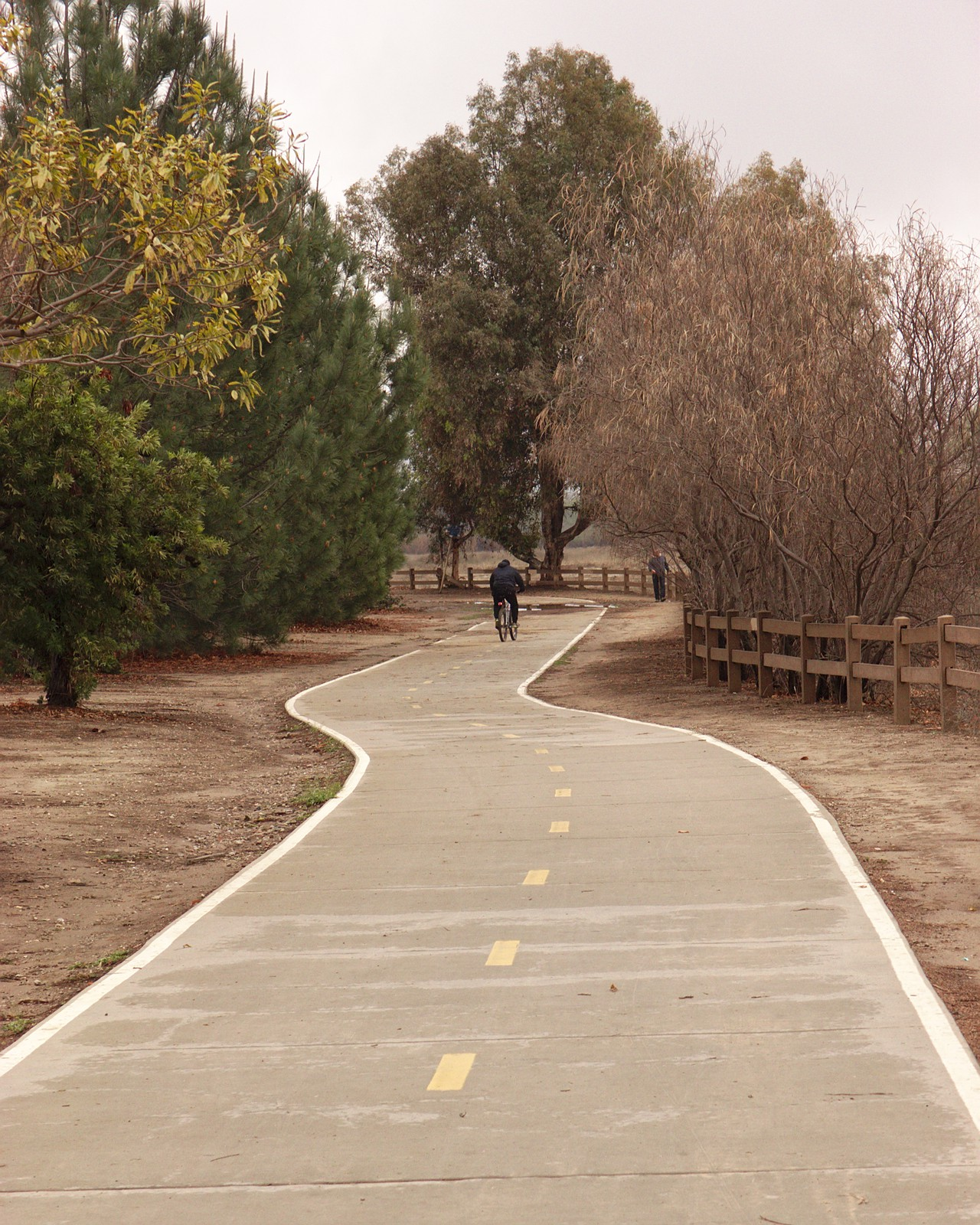 Bike path running along Woodley Ave. through the Sepulveda Basin Recreation Area in Van Nuys, Los Angeles, California.